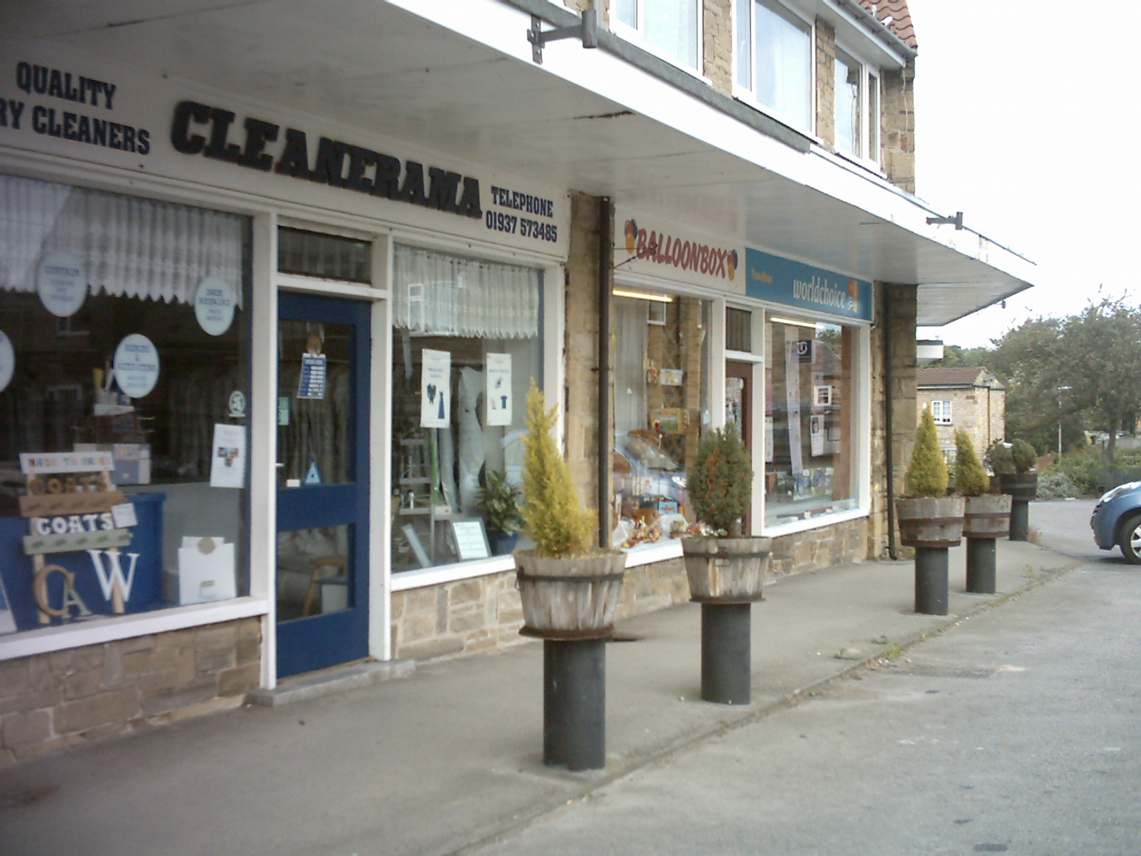 Elizabeth Court Precinct, Collingham, Eastern Parade